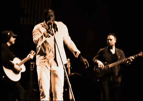 On Tour at The Palazzo in Las Vegas